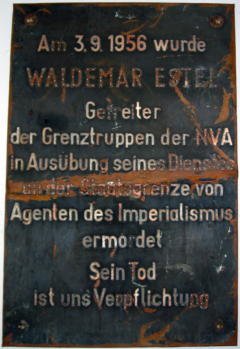 Memorial plaque to Waldemar Estel, an East German border guard killed on 3 September 1956. The translation is: "NVA border guards private murdered by imperialist agents in the course of his service at the state border. His death is our duty"